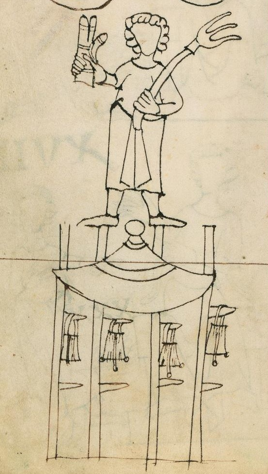 Drawing of a middleage "dutch style" hay barrack.The Sachsenspiegels in the Oldenburger version from 1336.